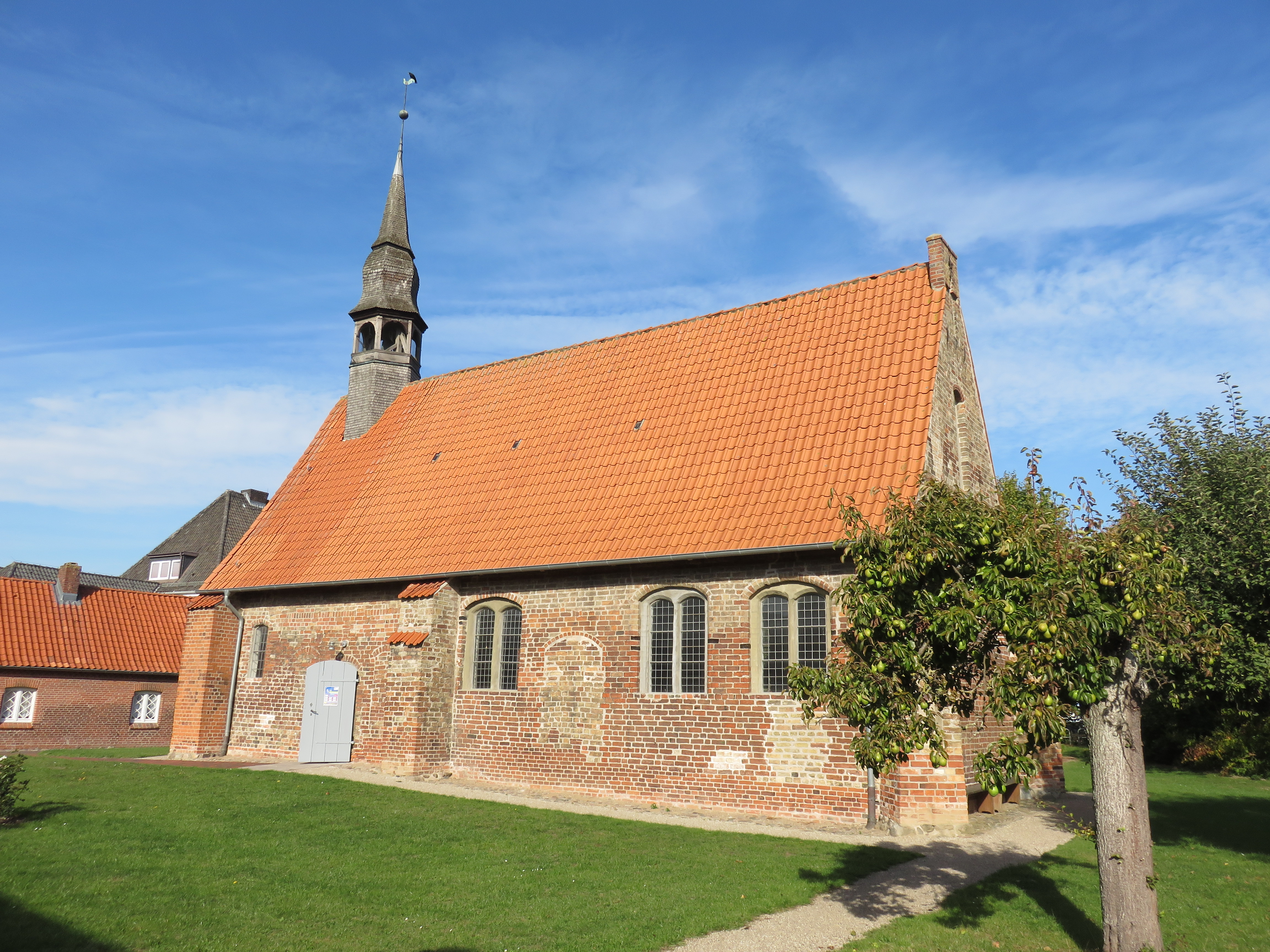 Hospitalkirche-Neustadt in Holstein